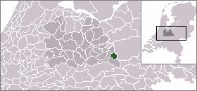 Location map of Dutch municipality. All images of this type by Mtcv have been released in the Public Domain by him